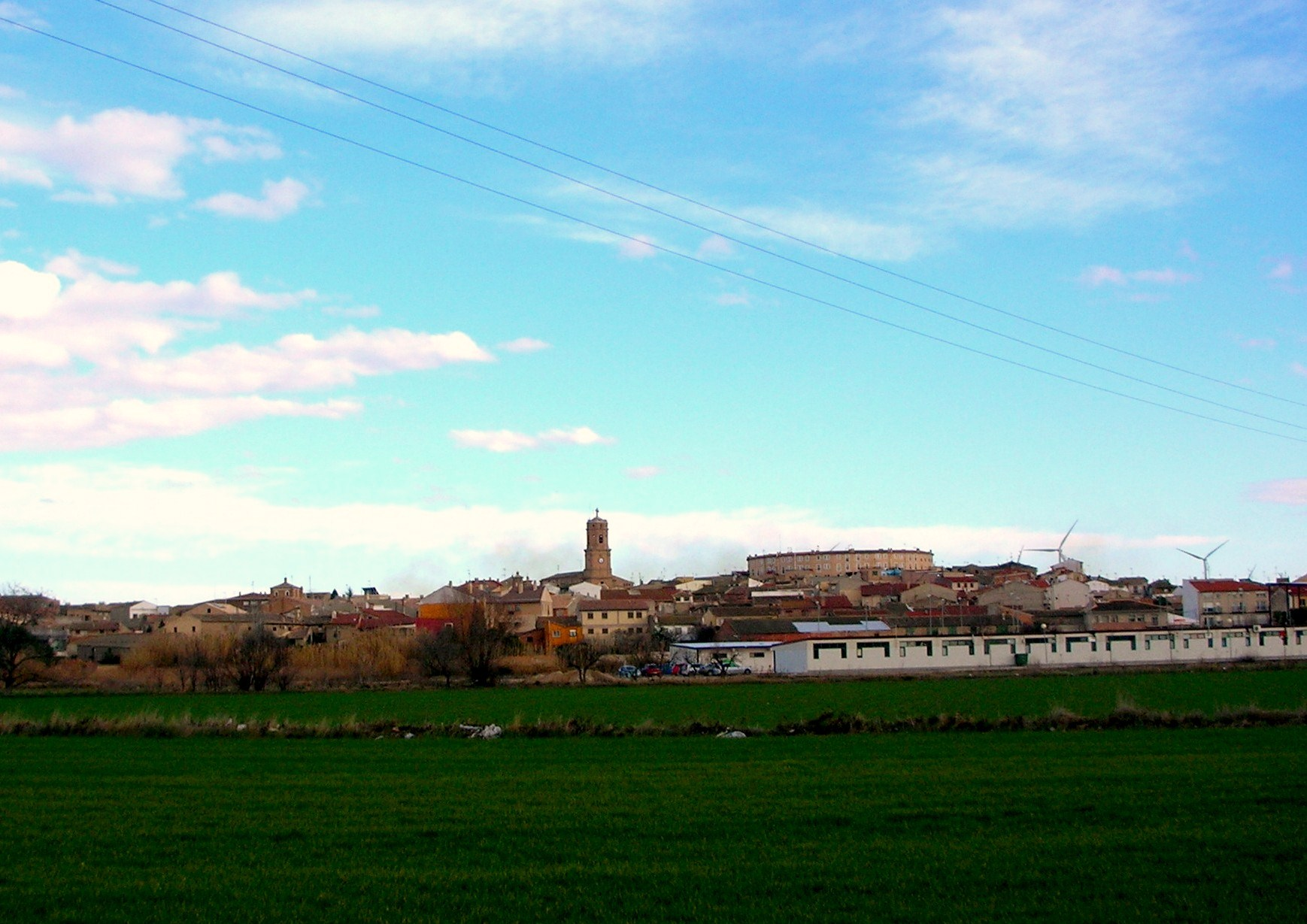 Mallén, a town in Aragon